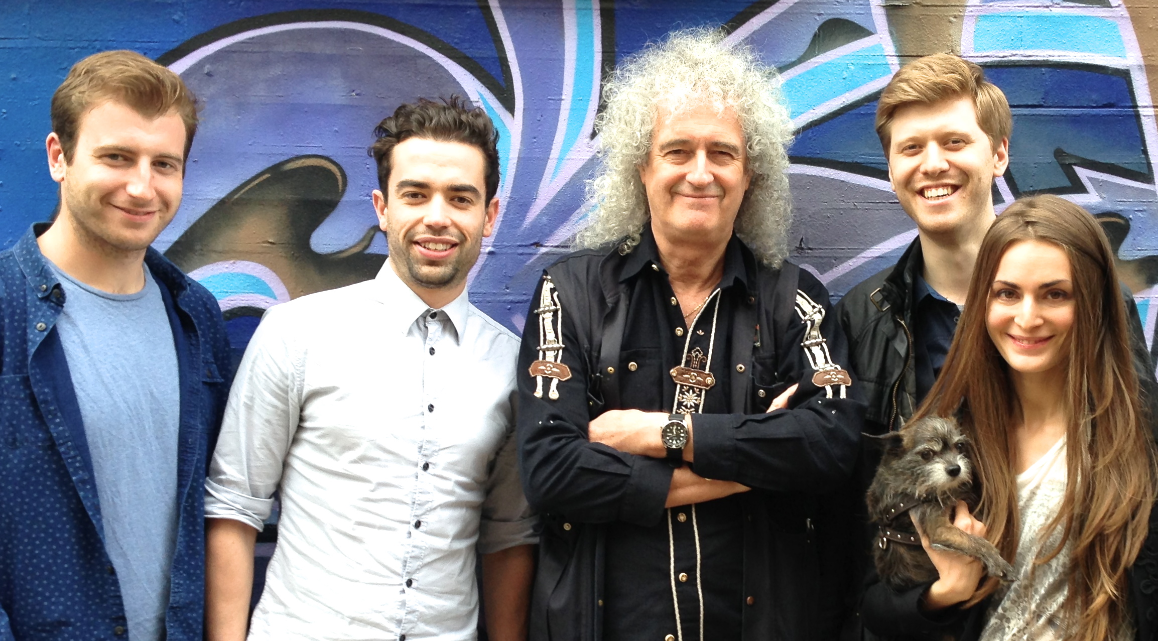 This picture was taken by one of Films United staff and is owned by my company Films United Ltd